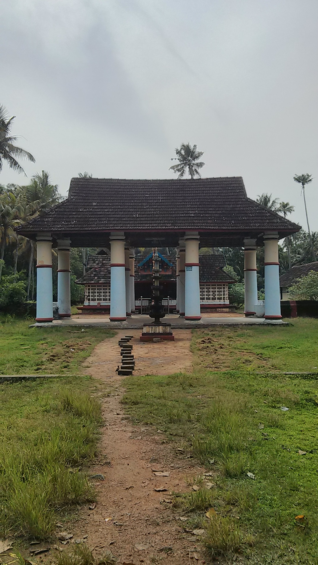 Puthiyakaav Temple near North paravur